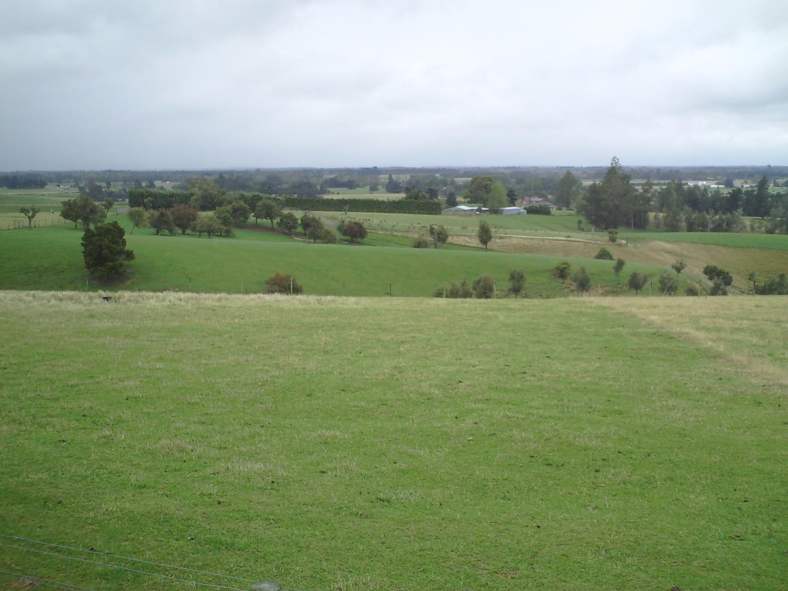 The Canterbury Plains of New Zealand's South Island